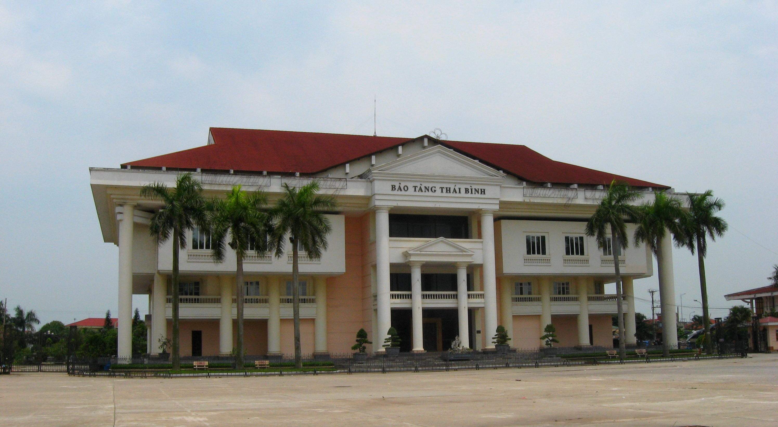 Thai Binh provincial museum